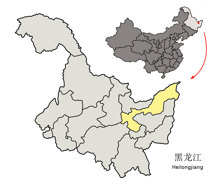 Location of Jiamusi Prefecture (yellow) within Heilongjiang Province of China Map drawn in november 2007 using various sources, mainly : Heilongjiang Province administrative regions GIS data: 1:1M, County level, 1990 Heilongjiang Counties map from